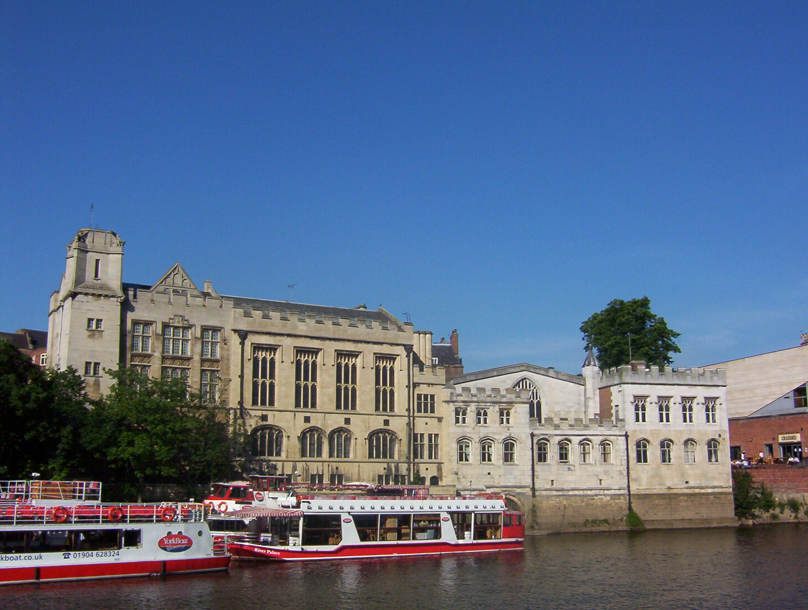 The Guildhall in York, England taken from the River Ouse. Home to the City of York Council it was originally built in the middle ages and rebuilt after the second world war.